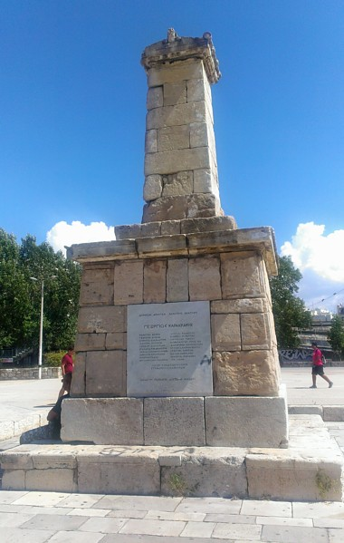 neo faliro